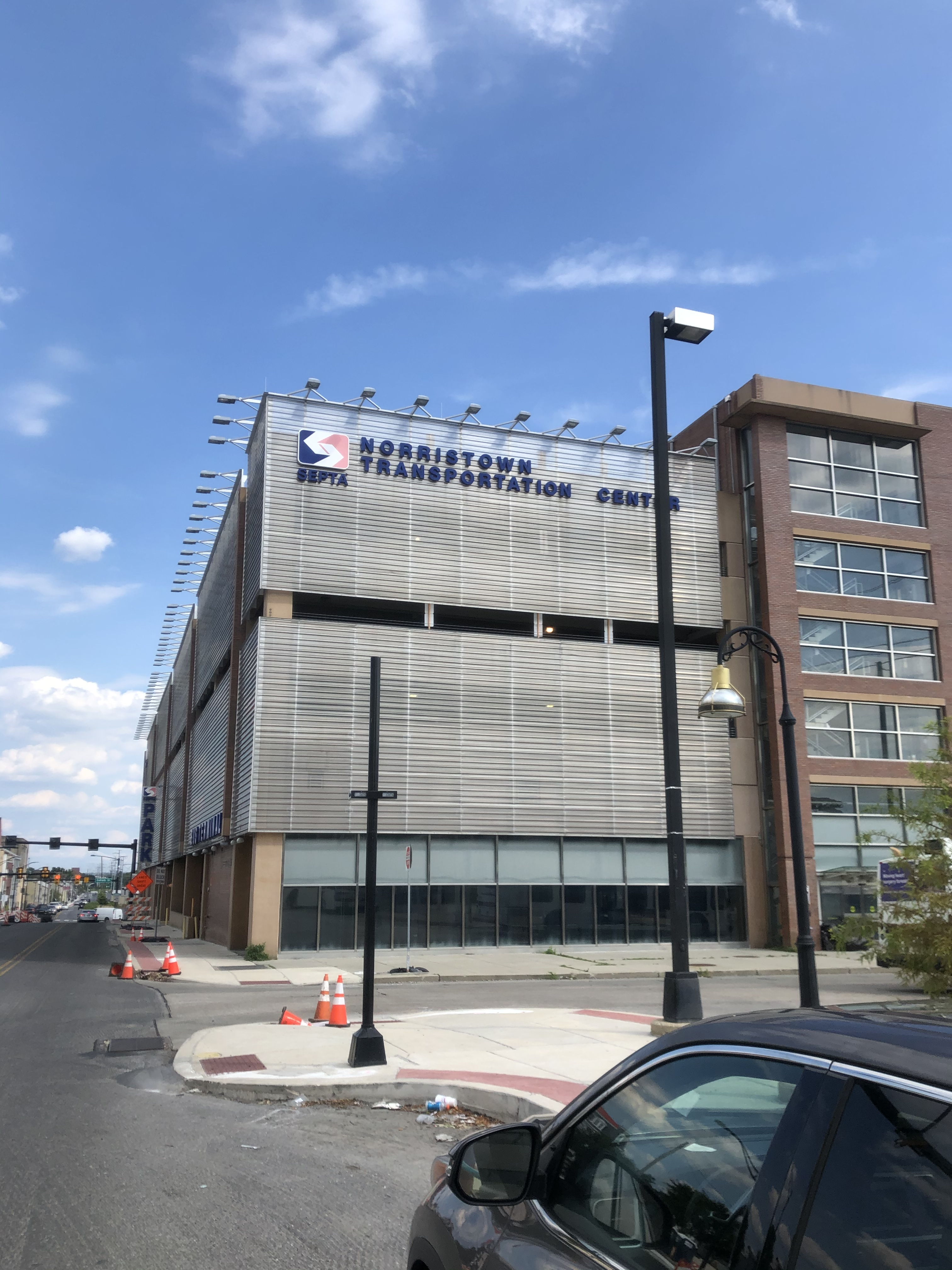 Norristown Transportation Center